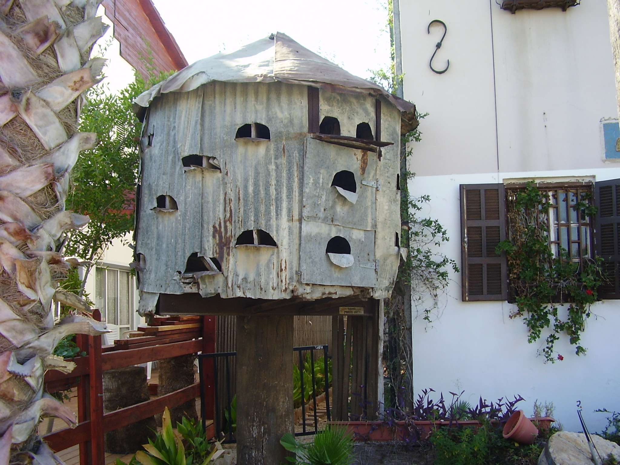 dove cote in mazkeret batya שובך יונים במזכרת בתיה